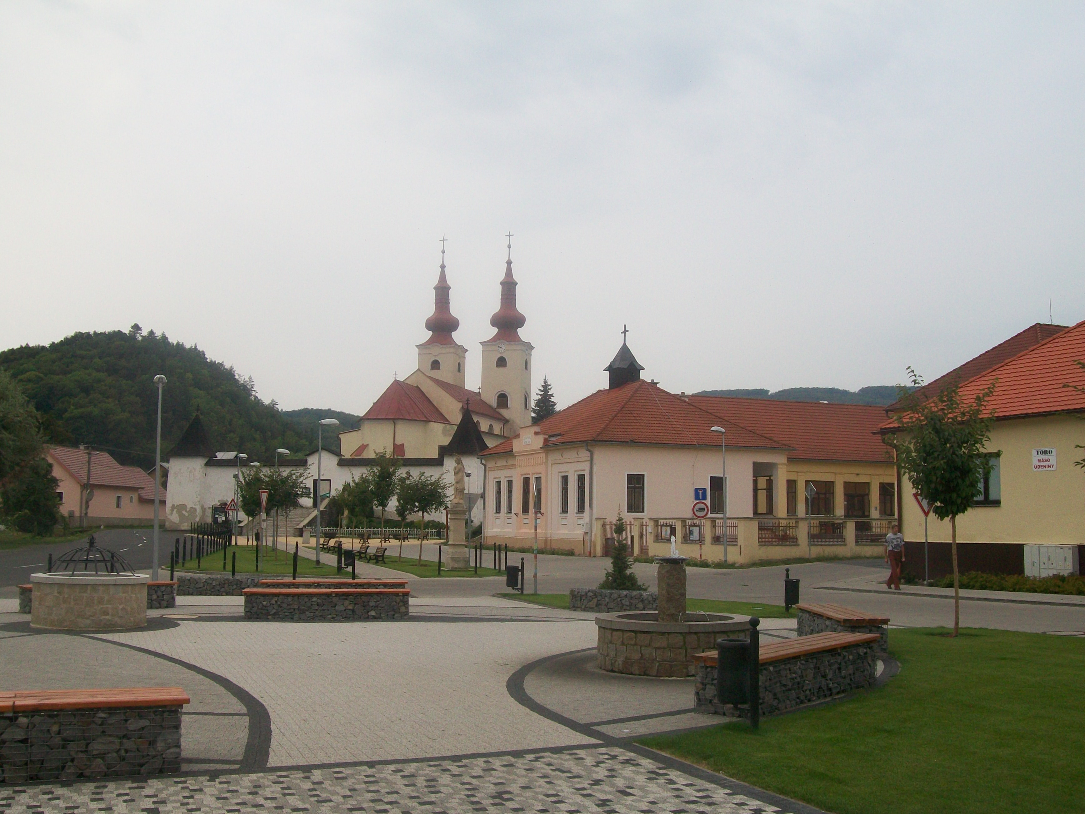 Square of peace in the village Divín